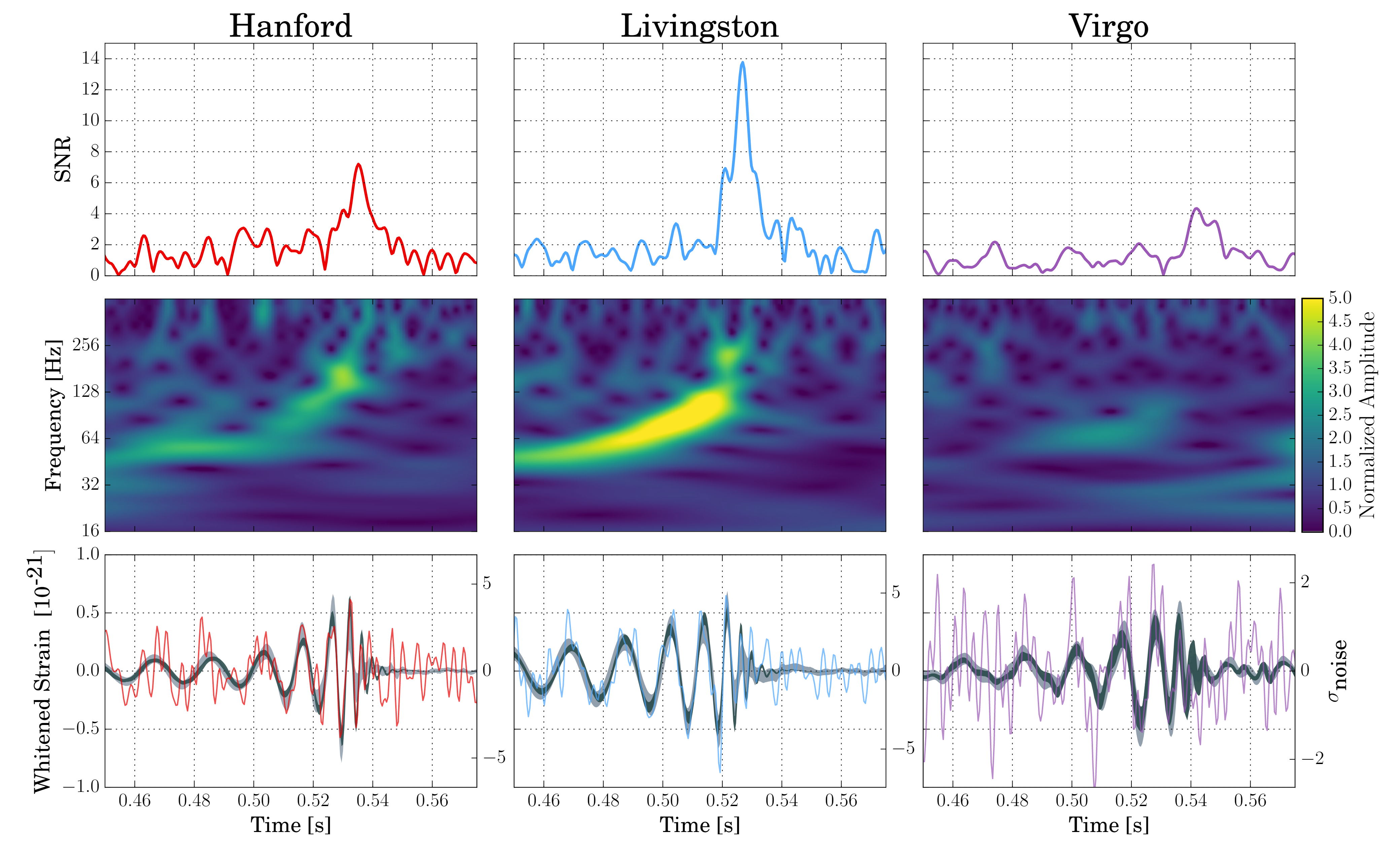 Top row: Signal-to-noise ratio as a function of time. The peaks occur at different times in different detectors because gravitational waves propagate at the finite speed of light; this causes the signal to reach the detectors at different times. GW170814 arrived first in LIGO-Livingston, then 8 ms later in LIGO-Hanford and 6 ms after that in Virgo. Middle row: Time-frequency representation of the strain data. The brighter a given pixel in any of the three 2D-maps, the larger the signal at this particular time and frequency with respect to the expected noise level. Note the characteristic "chirp" pattern of increasing frequency with time. Bottom row: Strain time series with the best waveforms selected by the matched filtering (black solid curves) and unmodeled search methods (gray bands) superimposed.